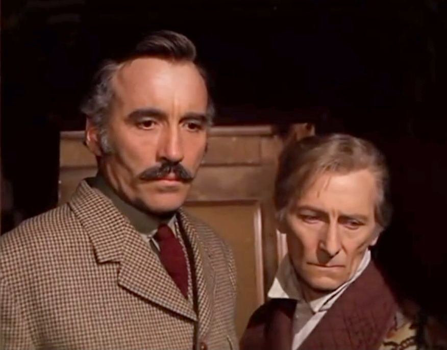 A screenshot from the film Horror Express (1972); Christopher Lee as Prof. Sir Alexander Saxton and Peter Cushing as Dr. Wells